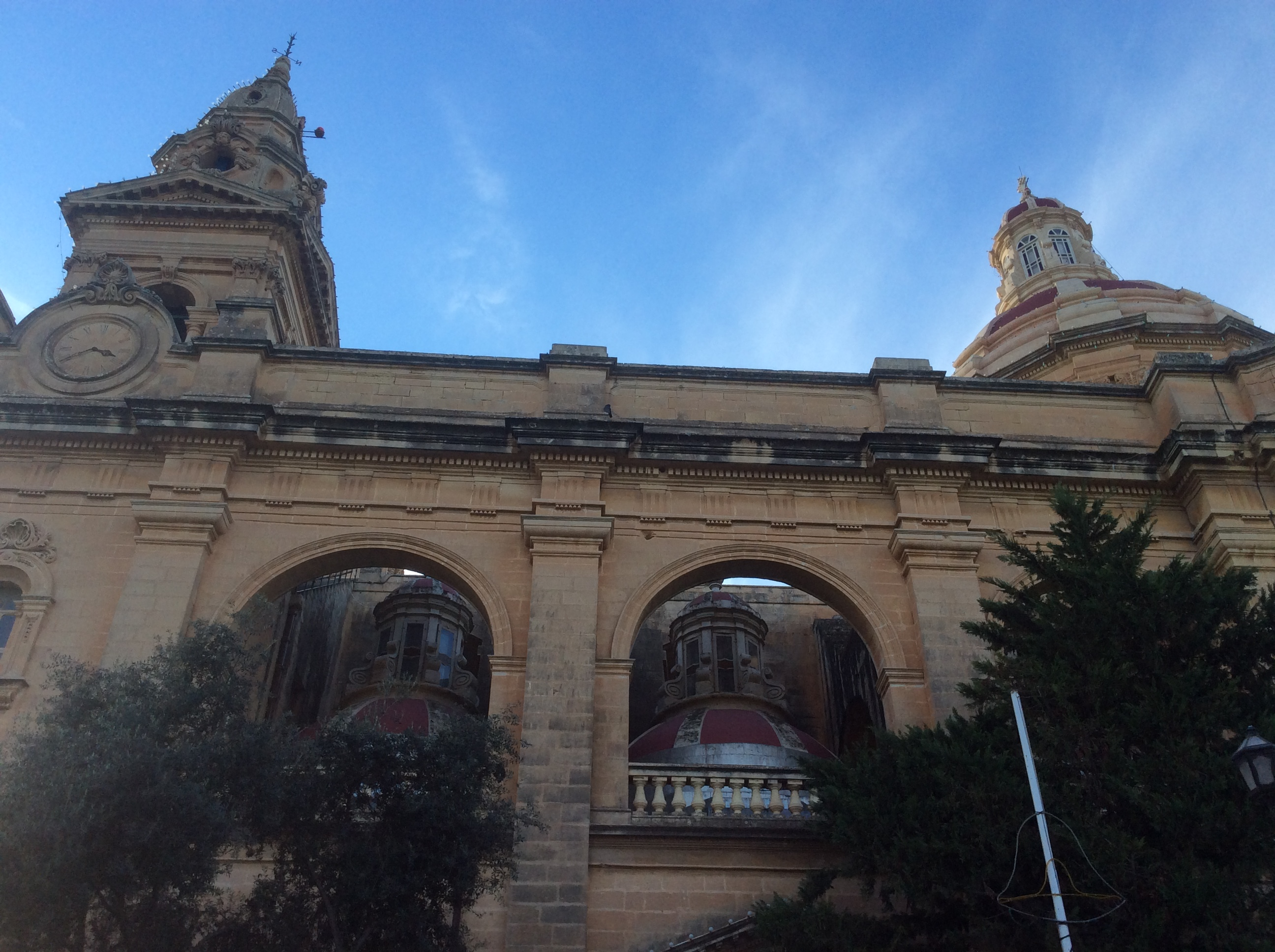 St Andrew's church side, Luqa Malta